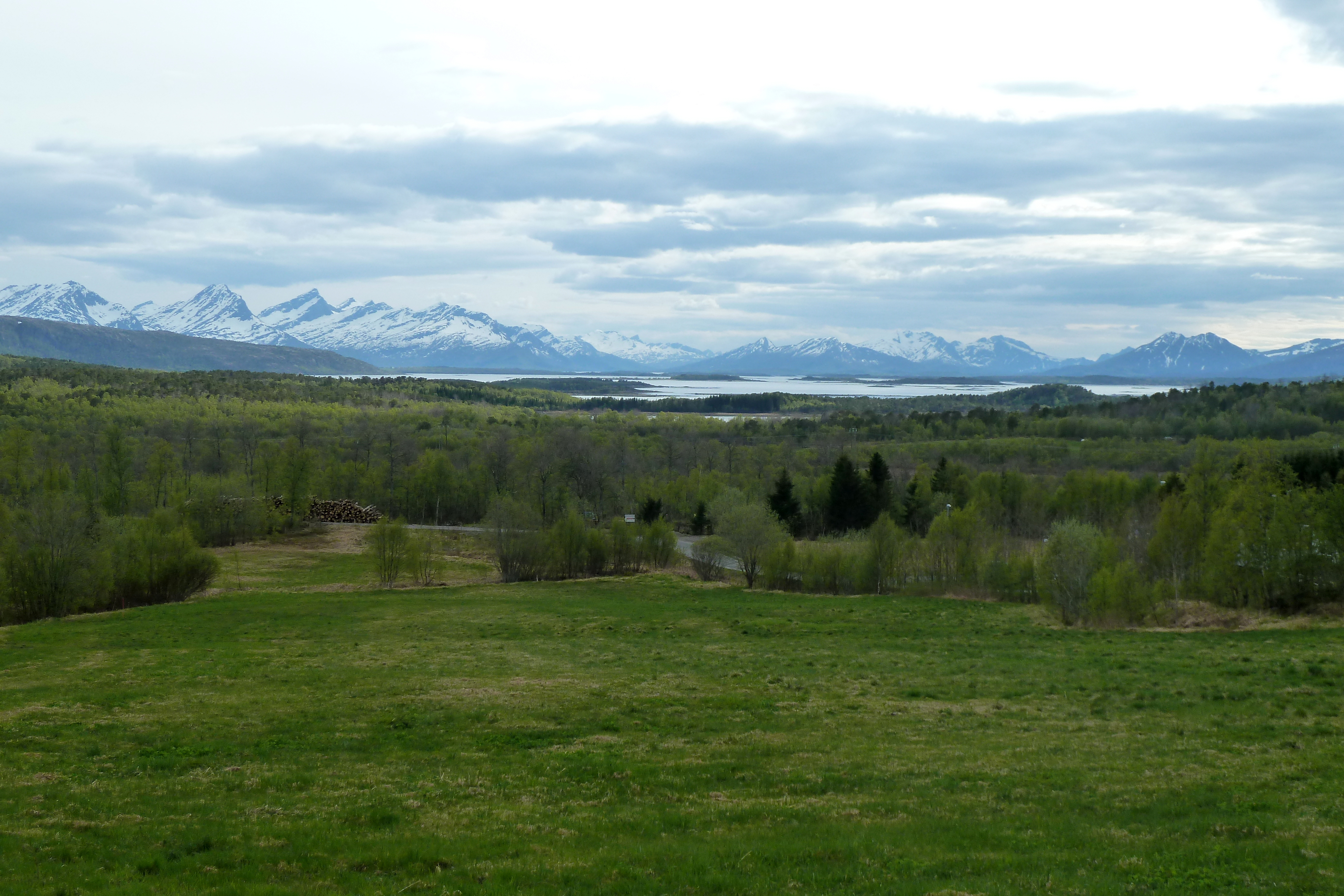 View against Kaldvågfjorden and Steigen from Oppeid in Hamarøy.